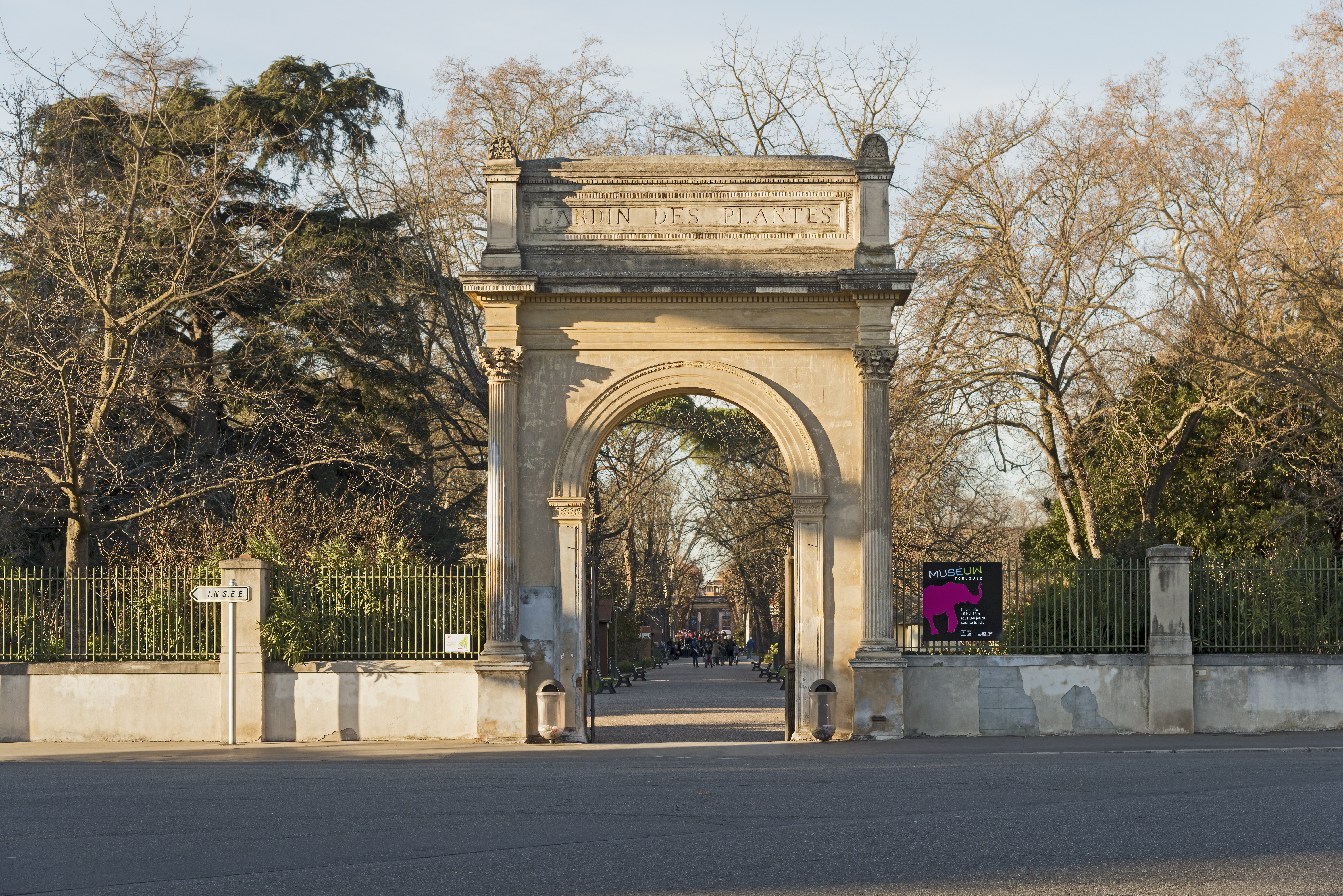 Southeast entrance of jardin des plantes,connected to the Virebent's door by the alley of "Righteous Among the Nations".